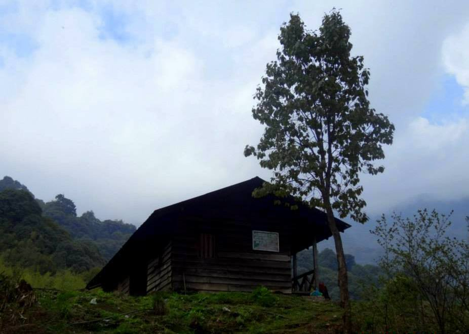 Alu bari Camp,Neora Valley National Park,West Bengal, India